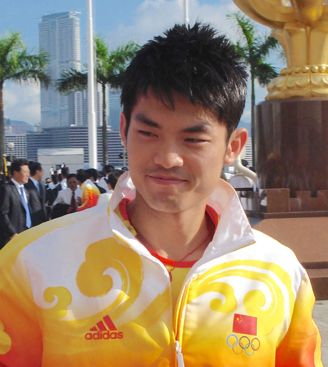 Lin Dan Bân-lâm-gú: Lîm Tan. 林丹